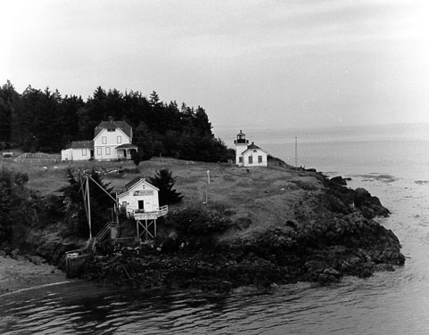 Undated photograph of Burrows Island Light (USCG)